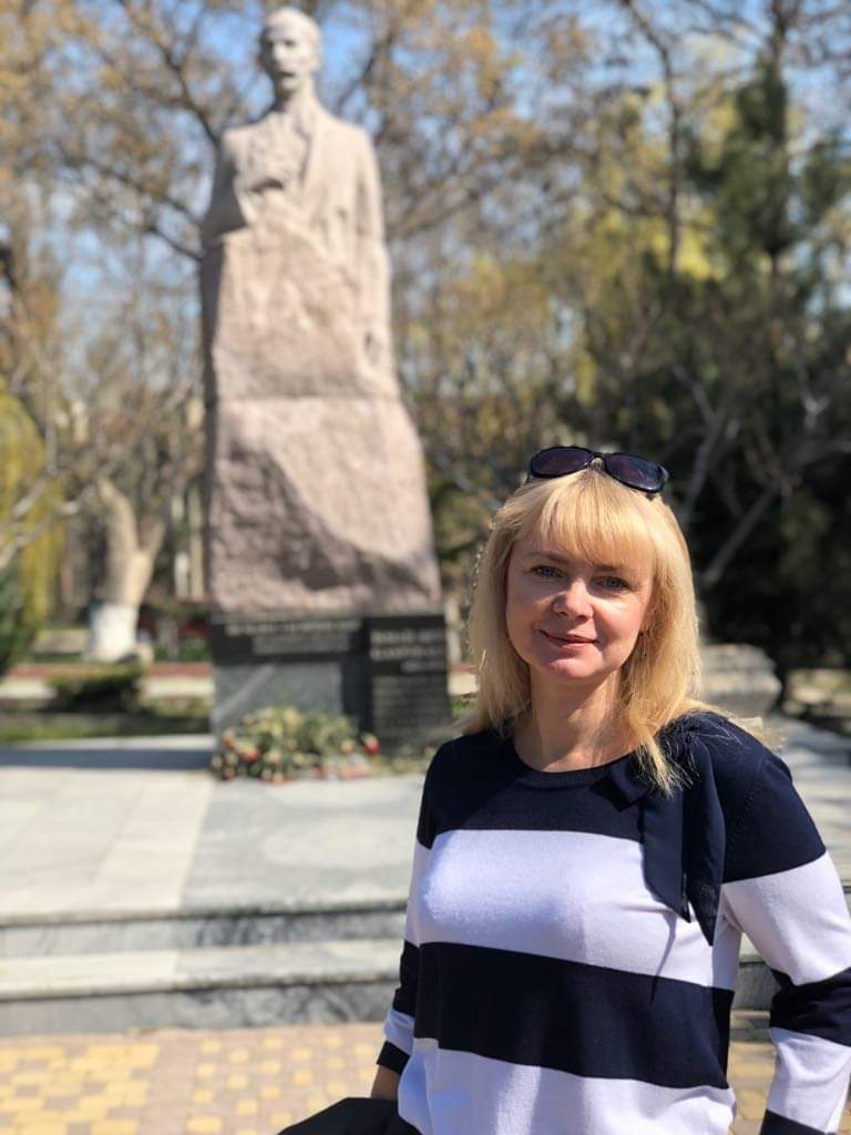 Crimean professor Yablonovska Natalia